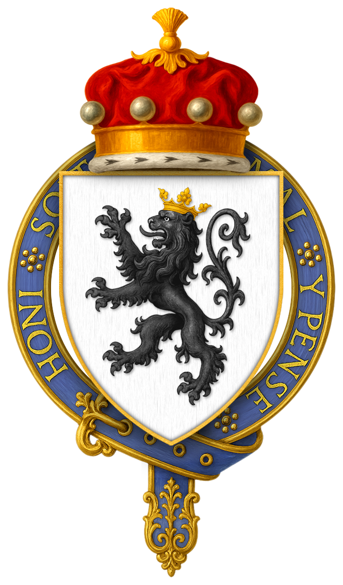 Coat of Arms of Sir Thomas de Morley, 4th Baron Morley, KG FOSTER, Joseph, Some Feudal Coats of Arms from Heraldic Rolls 1298-1418, London: James Parker & Co., 1902. “Morley, Sir Robert de - bore, at the battle of Boroughbridge 1322, argent, a lyon rampant sable crowned or (F.) Another Sir Robert bore the same at the siege of Calais 1345-8; borne also by THOMAS, 4th Lord, K.G., father of THOMAS (5th Lord) who bore it at the siege of Rouen 1418; Surrey Roll and Jenyns' Ordinary.”